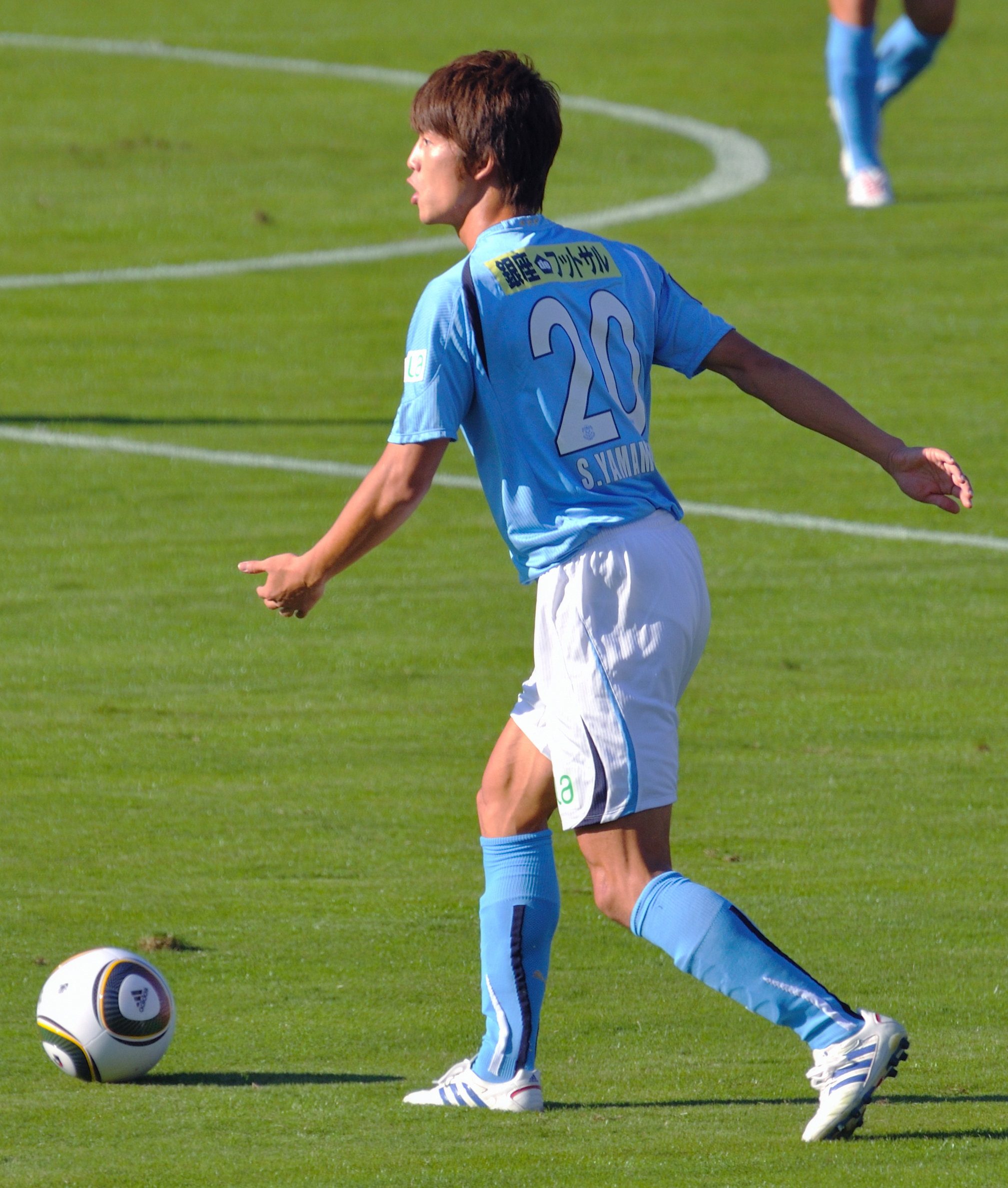 Shuto Yamamoto playing for Jubilo Iwata in the 2010 J-League cup final